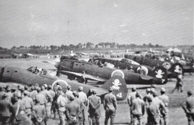 Imperial Japanese Army kamikaze unit The 58th Sinbu Squadron